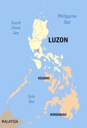 Map of the Philippines showing the former location of the Spanish province of Manila. Map was originally created by User:seav and was modified.